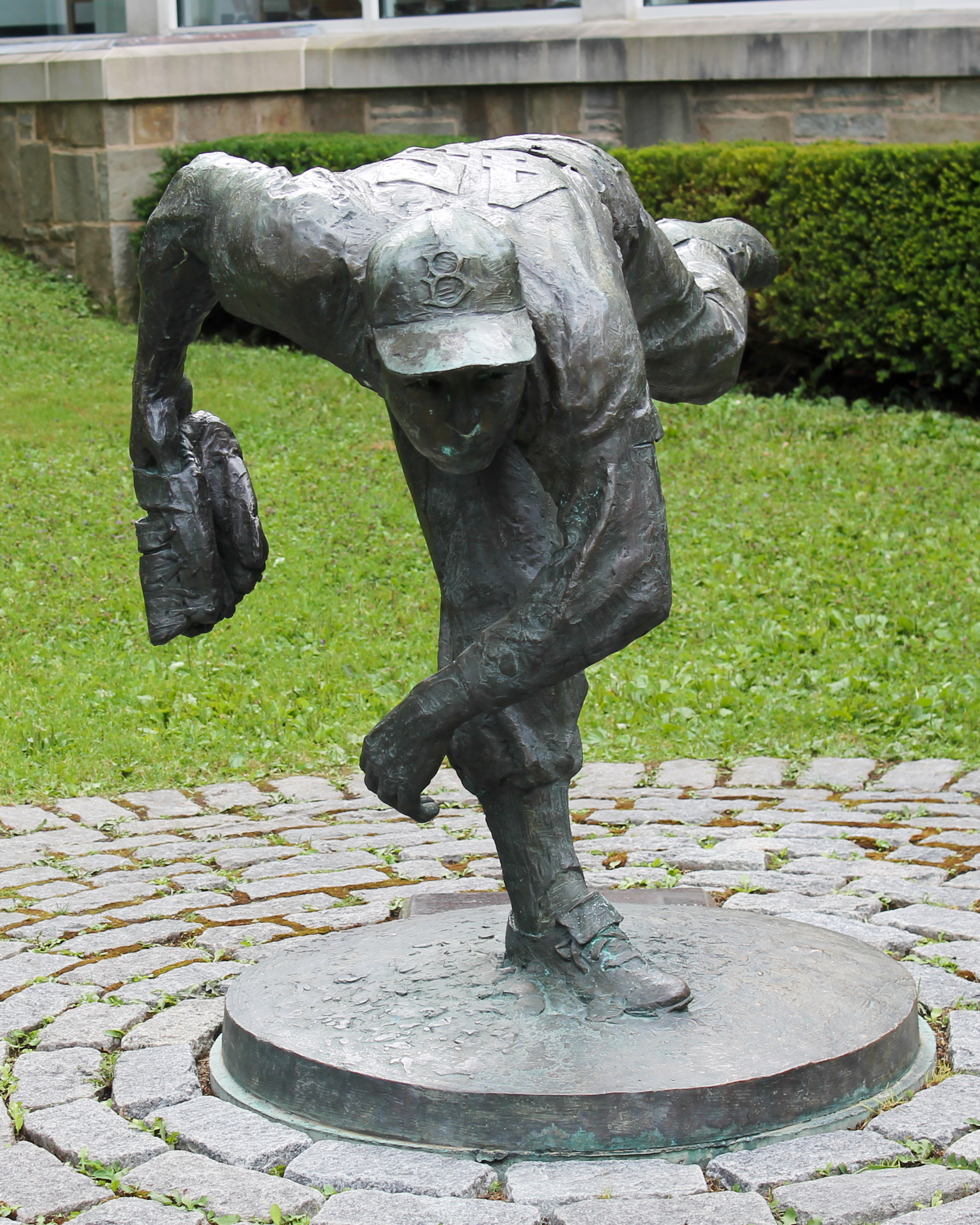 Bronze sculpture of former Major League Baseball player Johnny Podres at the Baseball Hall of Fame.